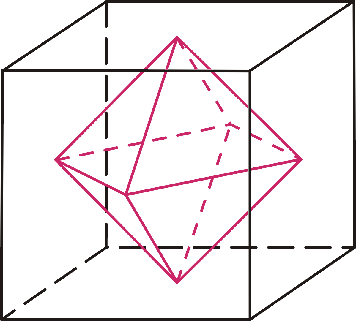 Octahedron dual to Hexahedron.